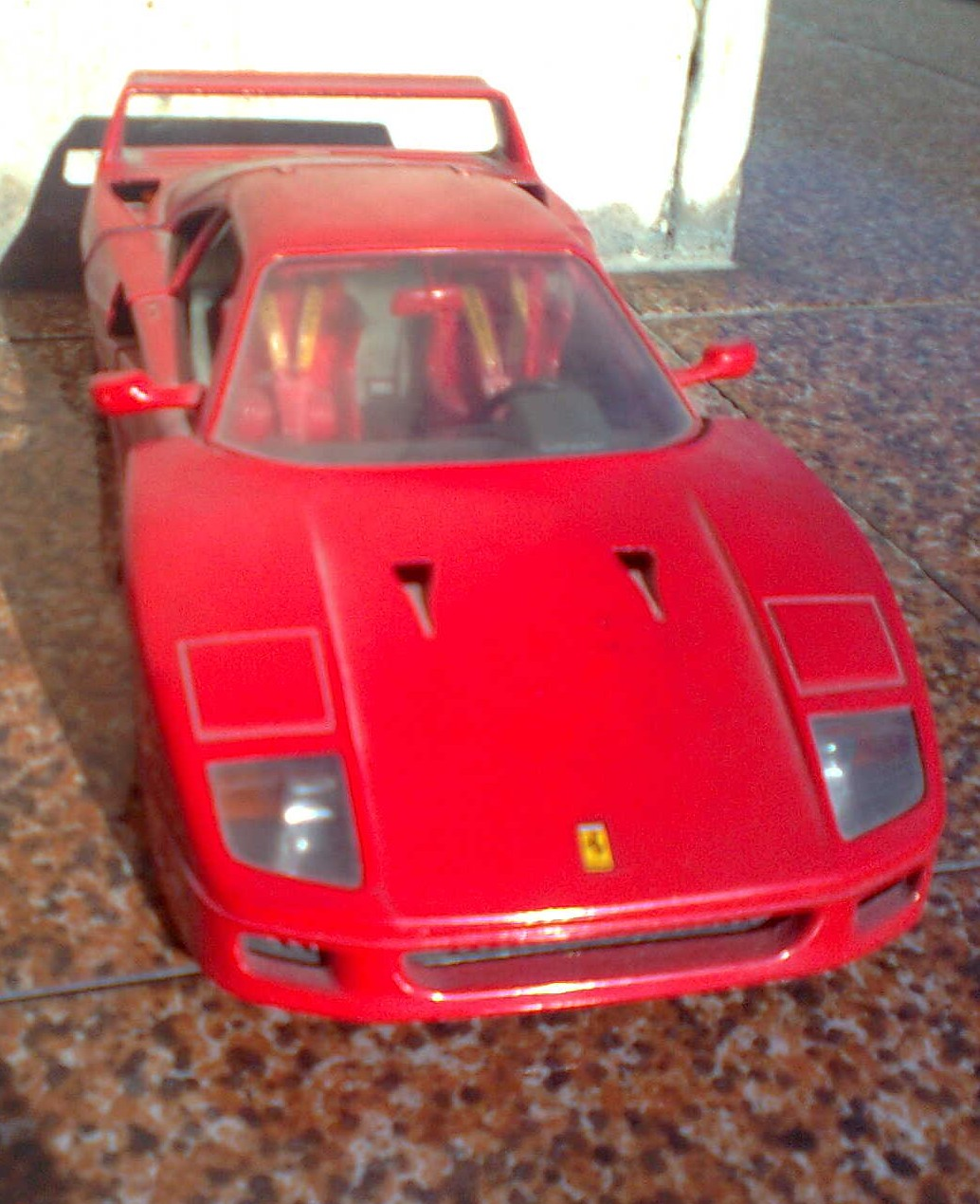 Ferrari f-40 by Bburago (photo taken in Bilbao, Basque Country, Europe)